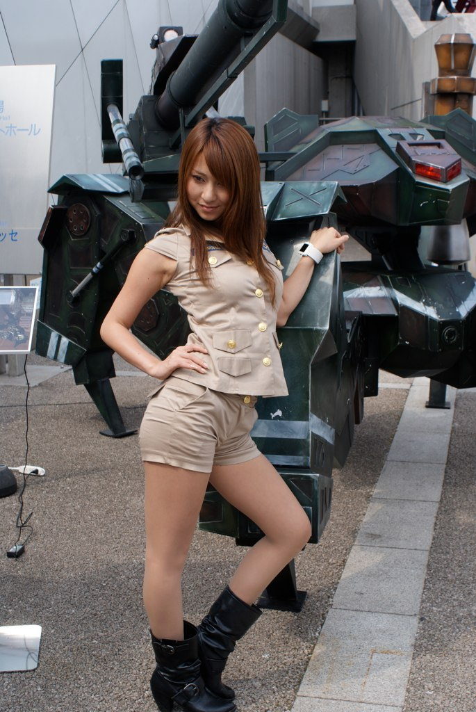 Taken on September 27, 2009 Sony DSLR-A300